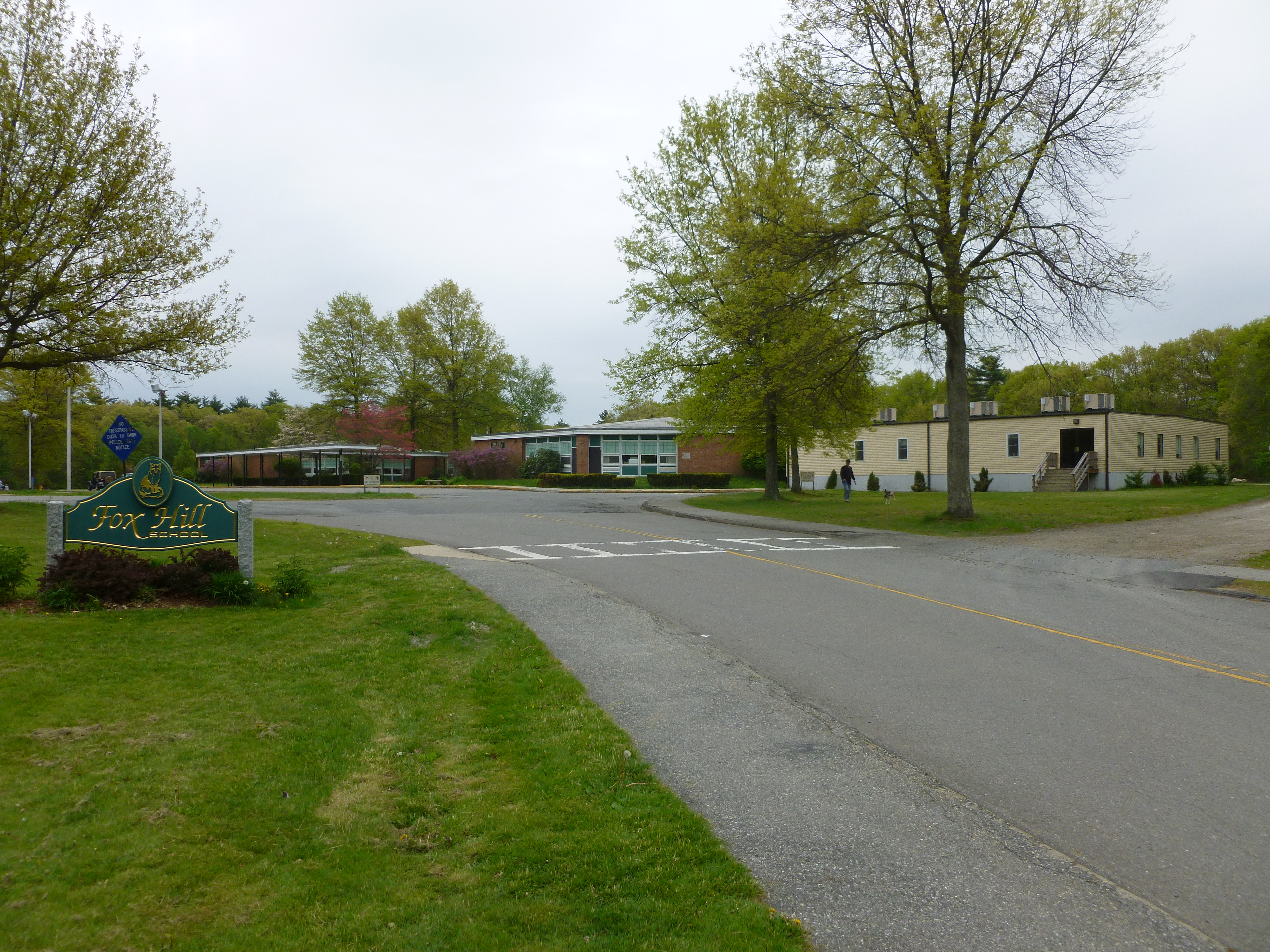 Fox Hill Elementary School, located at the intersection of Fox Hill Road and Westwood Street in Burlington, Massachusetts. West side of building, as viewed from intersection, shown.